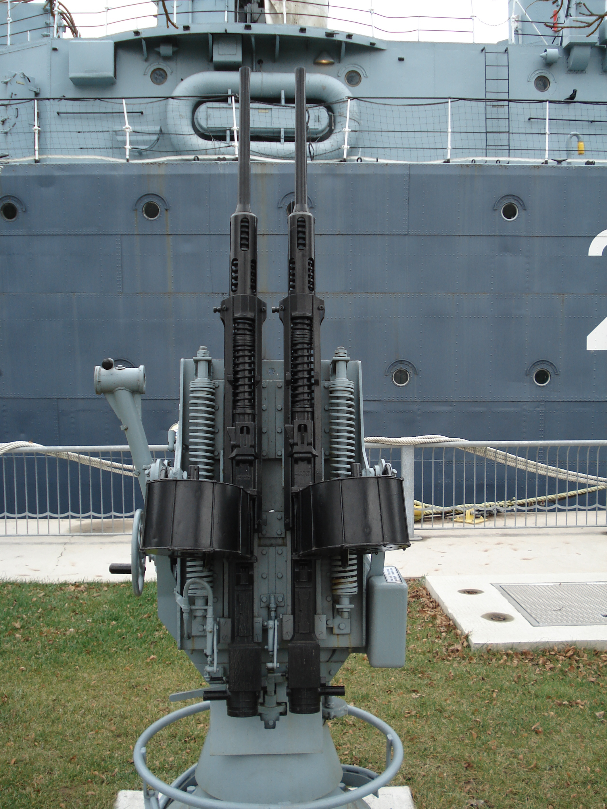 Twin 20 mm Oerlikon anti-aircraft gun. In the background: destroyer HMCS Haida moored as museum ship at Hamilton, Ontario. Photo taken on December 2, 2006. Source: Photo by me, User:Balcer.